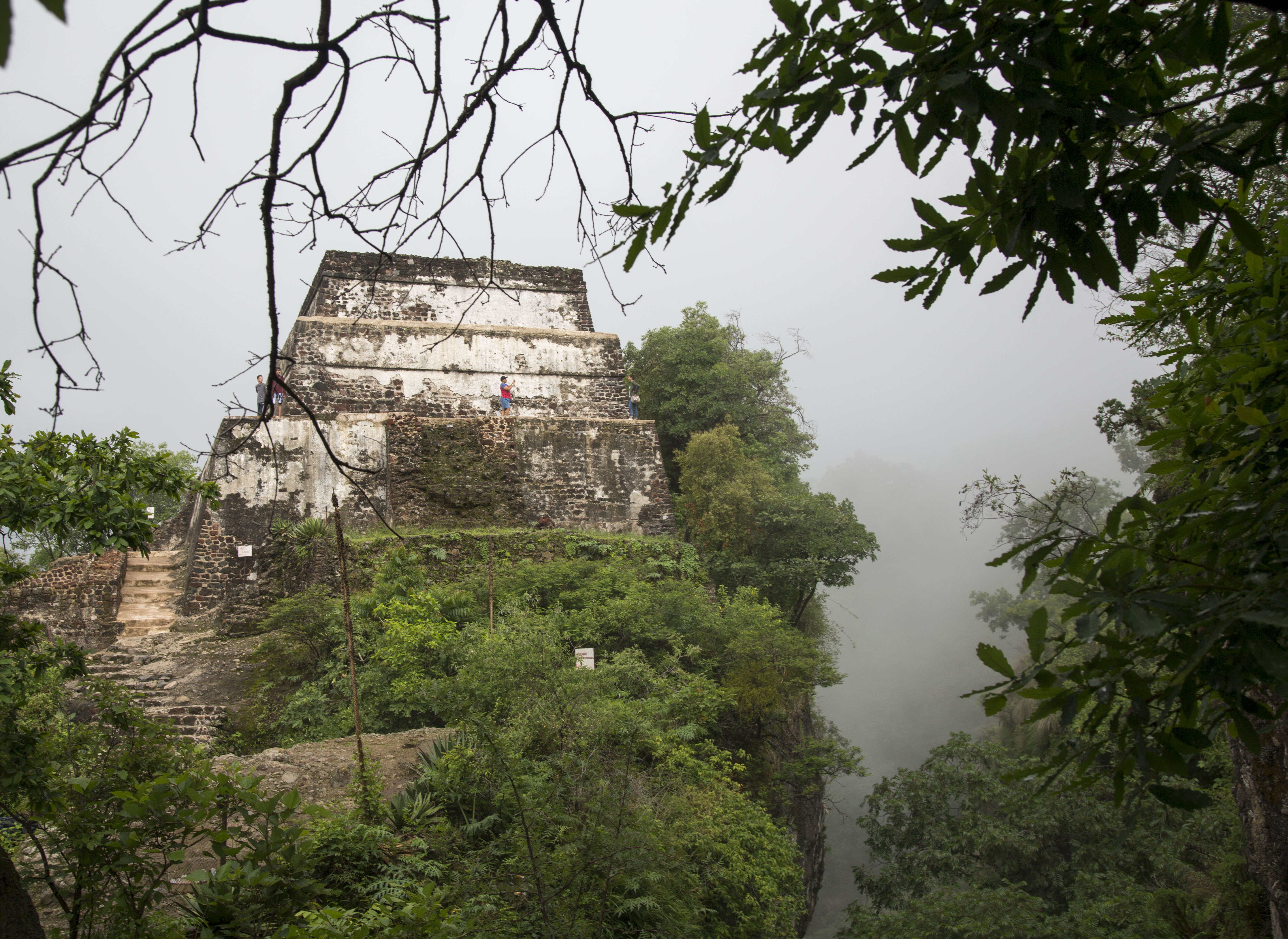 Pyramid a the top of the Tepozteco, built on the edge of the ravine can be seen between the mystery of the fog.